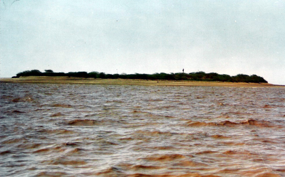 Piram Bet as seen from the boat approaching the island